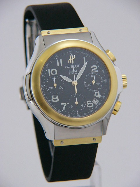 Hublot Elegant Chronograph 1810.130.2